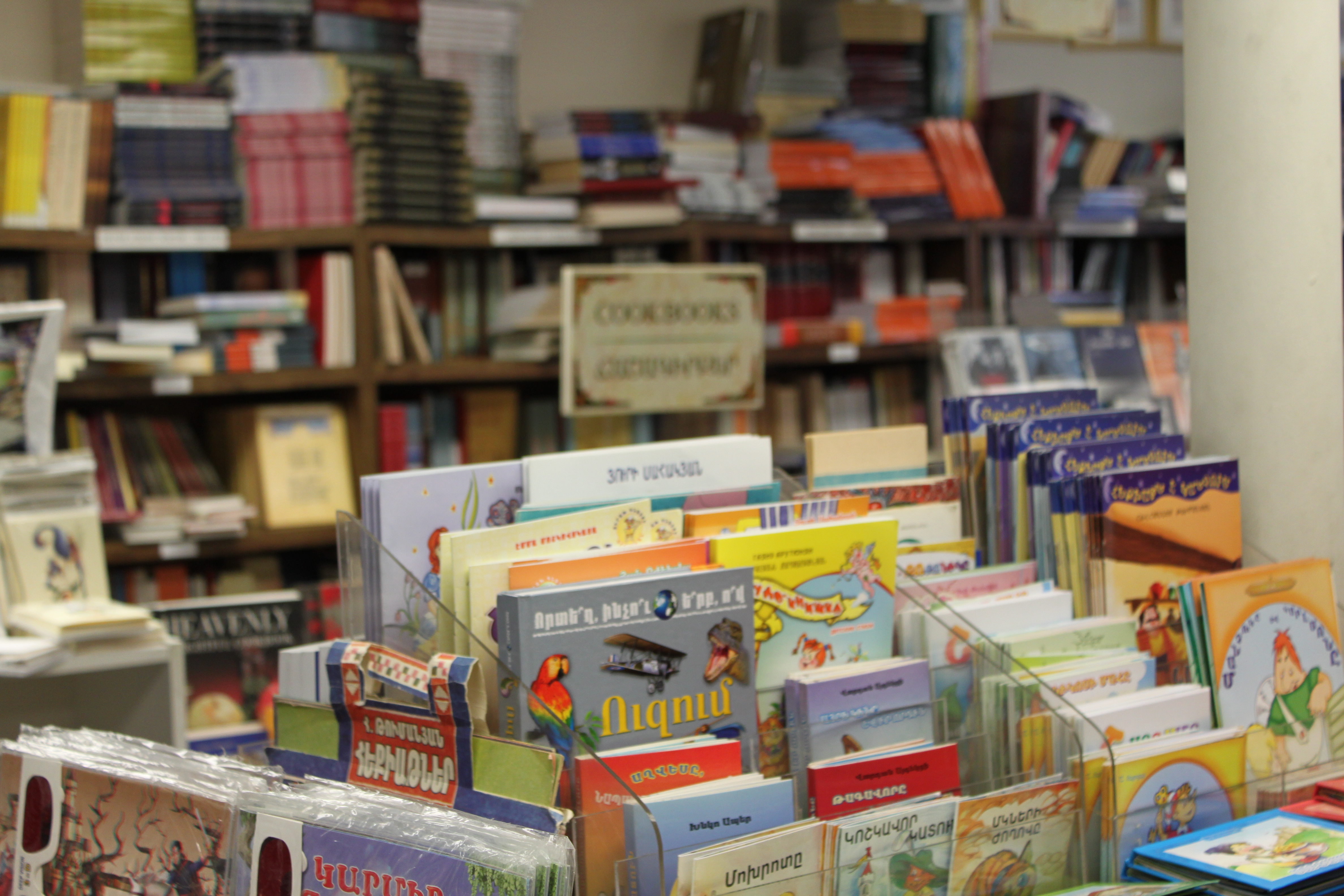 Abril Bookstore, Glendale, CA, USA. Children's literature section.